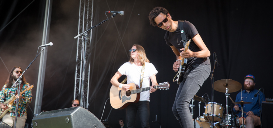 The Switch at the main stage in the Vigeland Park. The concert was part of Piknik i Parken and took place on 24. June 2017 in Oslo. Lineup: Thomas Sagbråten (guitar / vocal) Peter Vollset (lyrics) Espen Kregnes (bass guitar) Filip Roshauw (guitar) Tore Flatjord (drums) Frank Michaelsen (guitar) Arthur Kay Piene (keyboard)